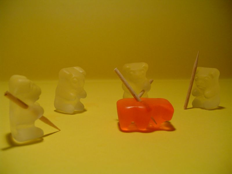 Difference produces fury.